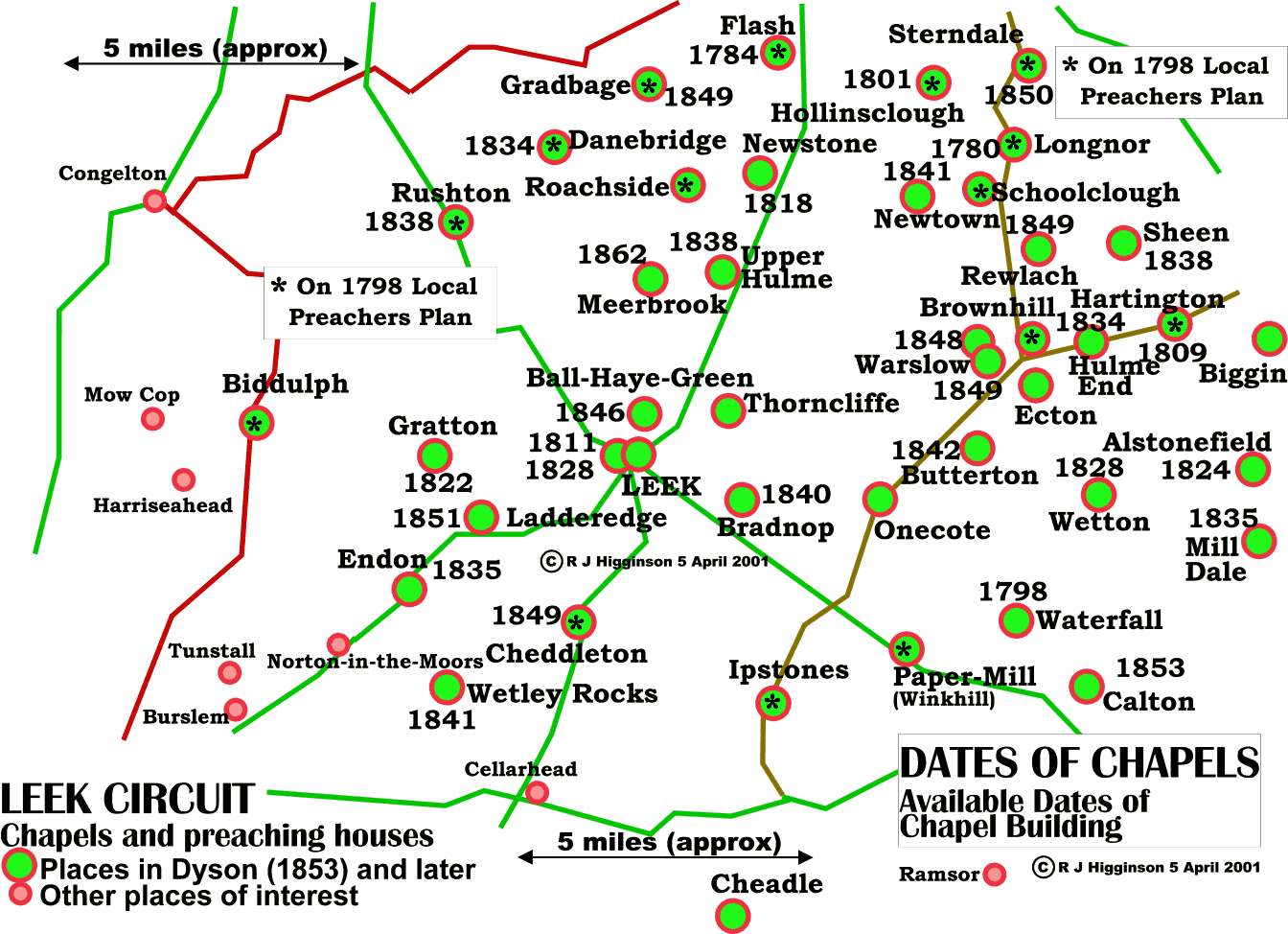 Locations of most Methodist Chapels around Leek, Staffordshire, with dates where known of the first chapel building.